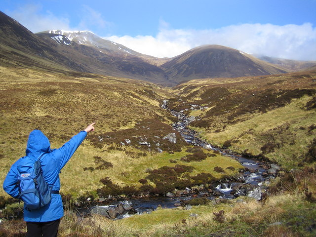 Bend in the River. Bend in the Allt Coire Mhuillidh. Hill in the background to the left is Sgurr a Choire Ghlais and the round hill to the right is the southern end of Carn nan Gobhar.